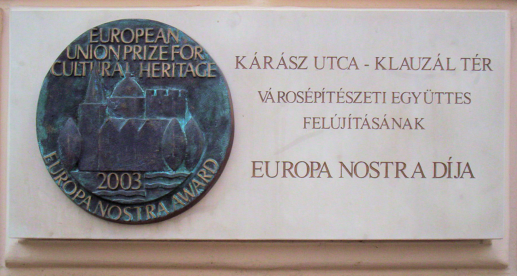 Europa Nostra-prize plaque for reconstruction of Klauzál tér in Szeged, Hungary